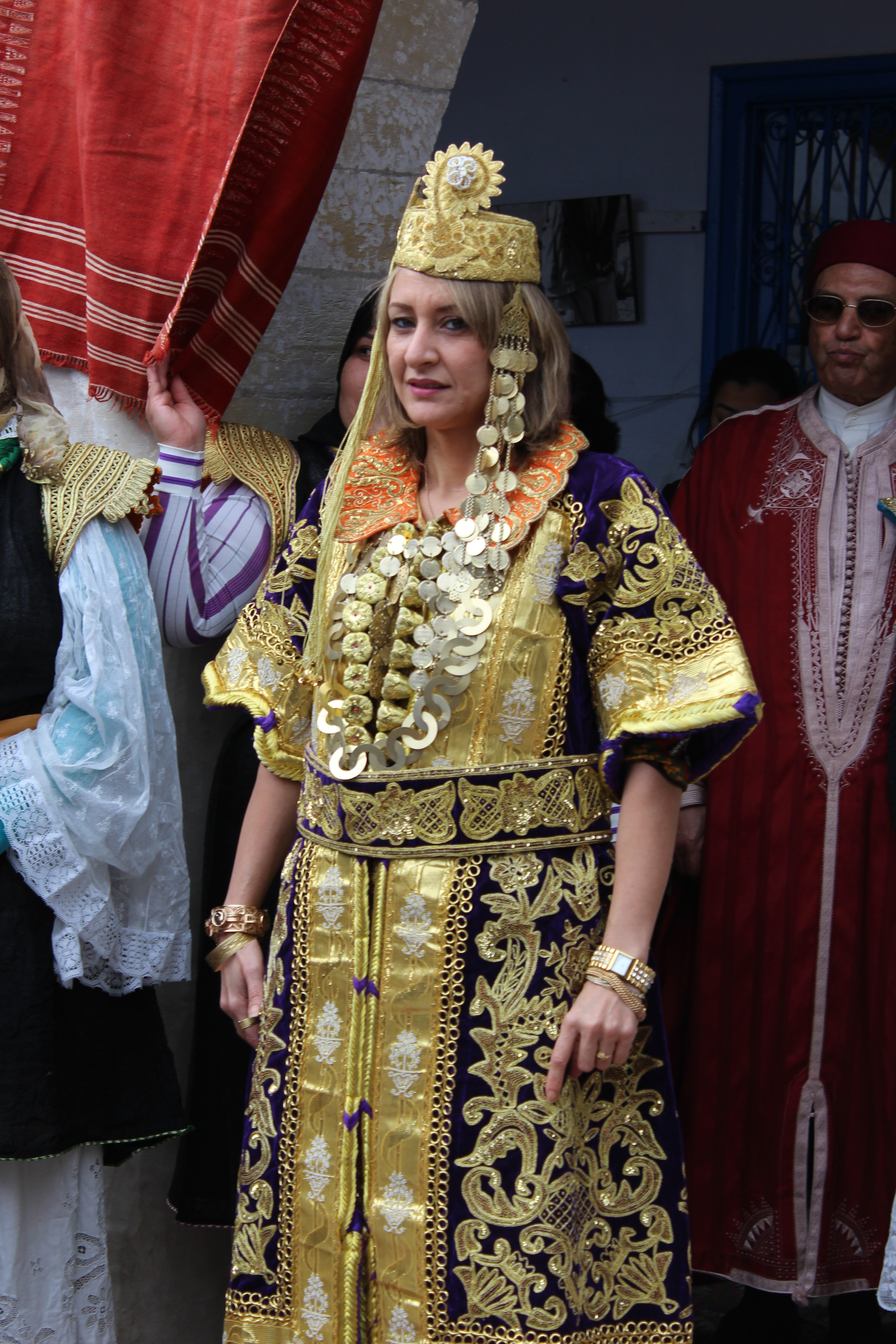 It is a handmade traditional dress made from silk, the bride wears it in the Hena which is a ceremony two days before the wedding. On the head, this hat is called Taguiya. This is an image of Cultural Fashion or Adornment from Tunisia